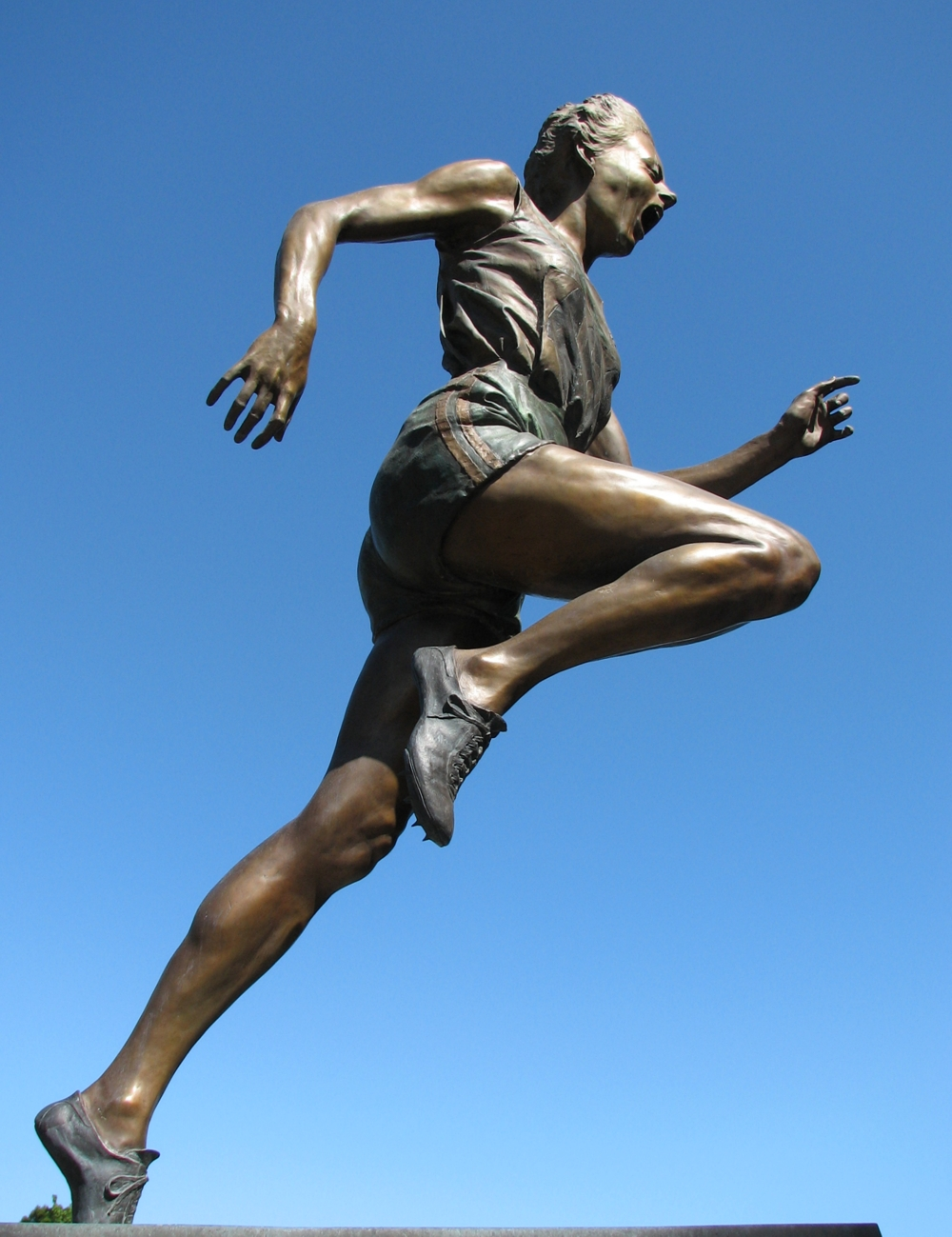 Statue of Betty Cuthbert outside the Melbourne Cricket Ground. Sculptor: Louis Laumen.